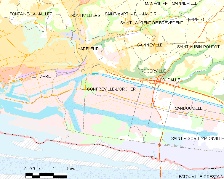 Map of French municipality Gonfreville-l'Orcher